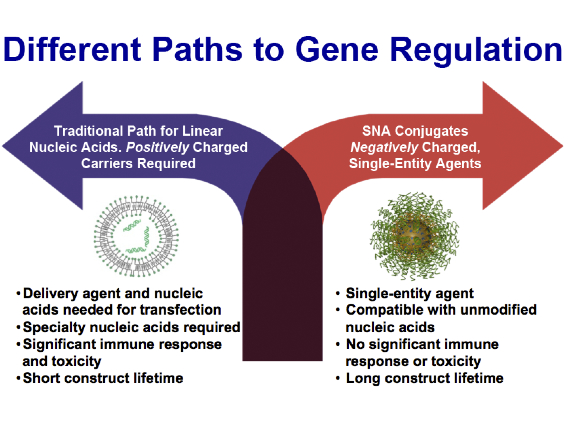 Adapted from Cutler, J. I., et al., Spherical Nucleic Acids. J Am Chem Soc 2012, 134 (3), 1376-1391. Copyright 2012 American Chemical Society.